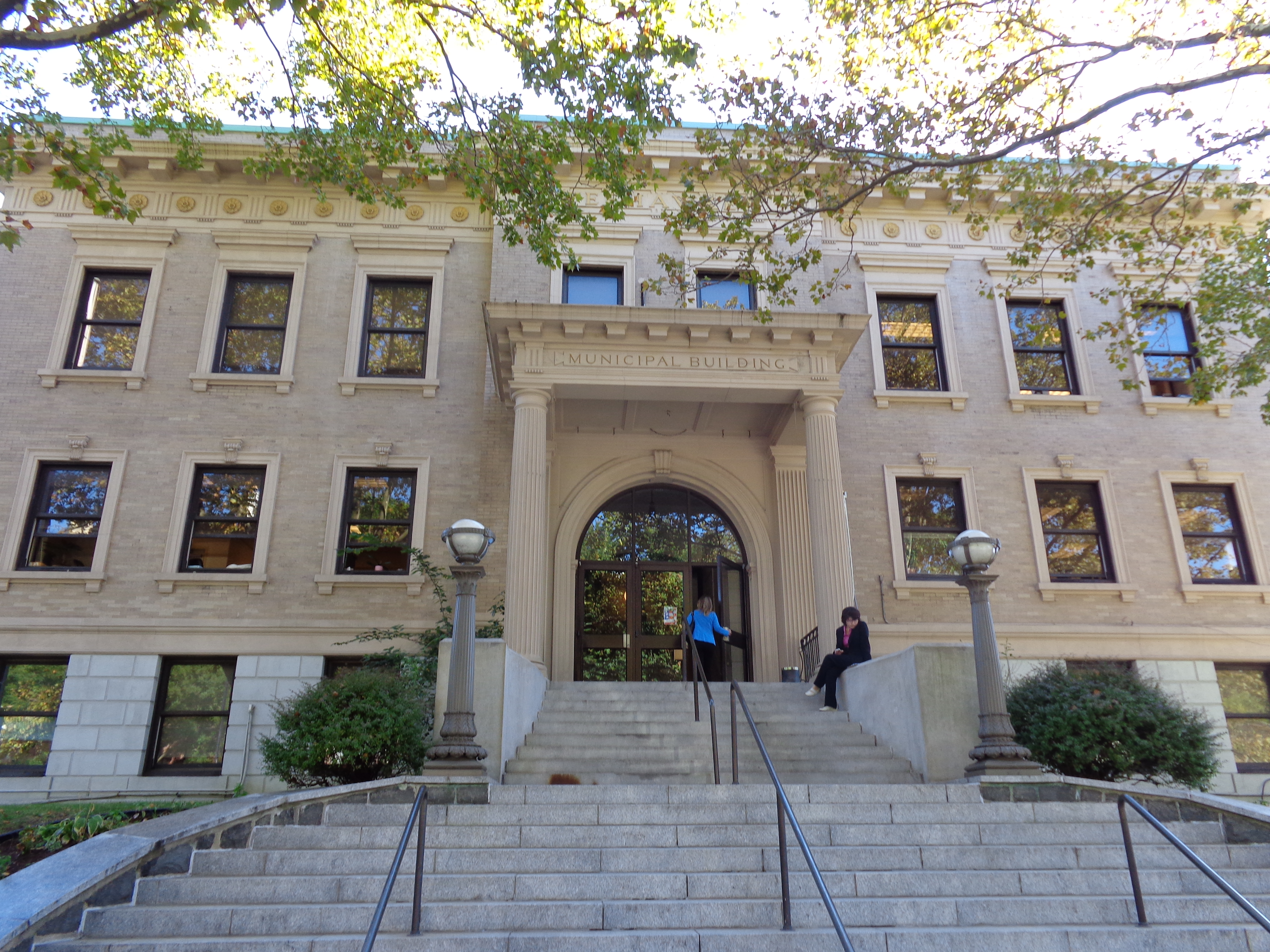 Weehawken Town Hall